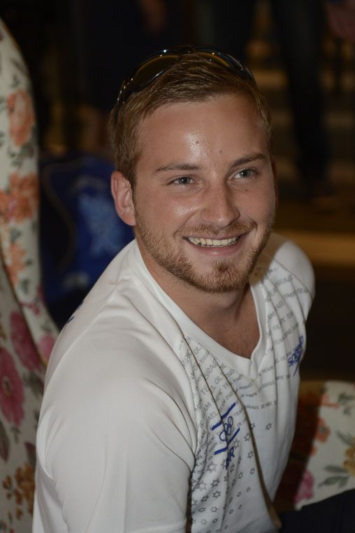 Sergey Rikhter, 2012